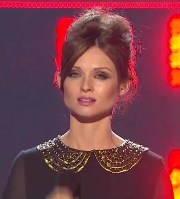 Sophie Ellis Bextor in Poland